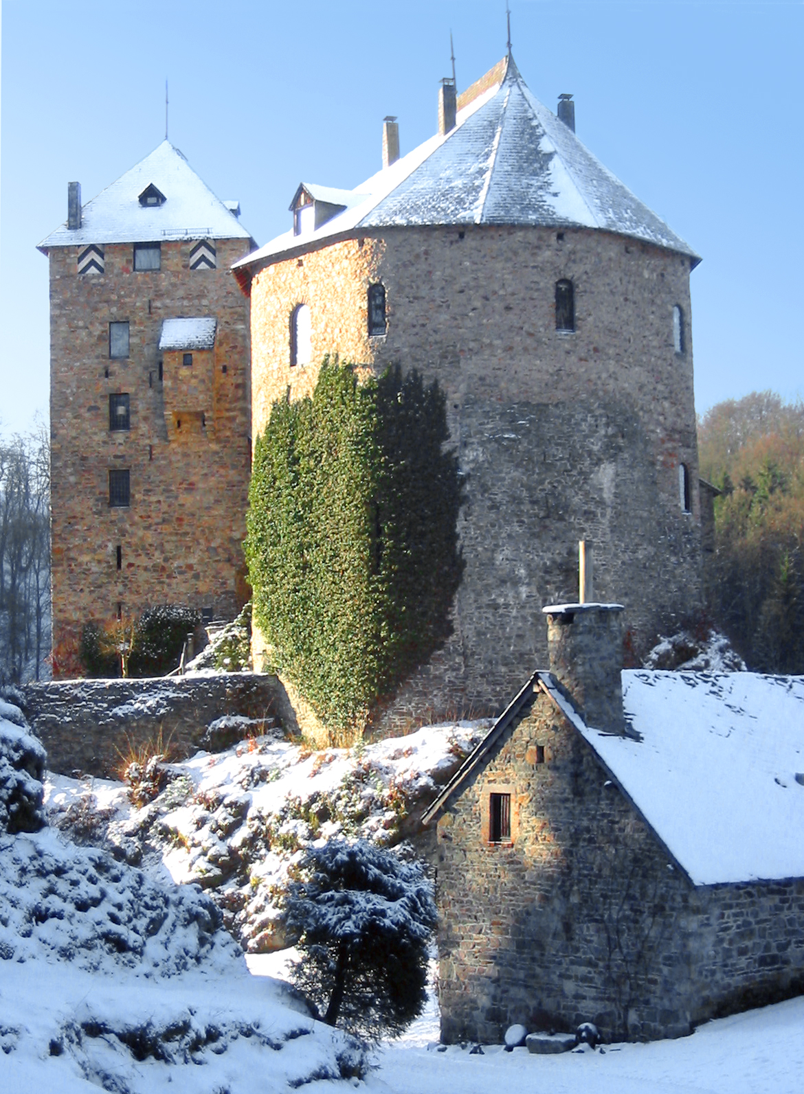 Belgium, Reinhardstein